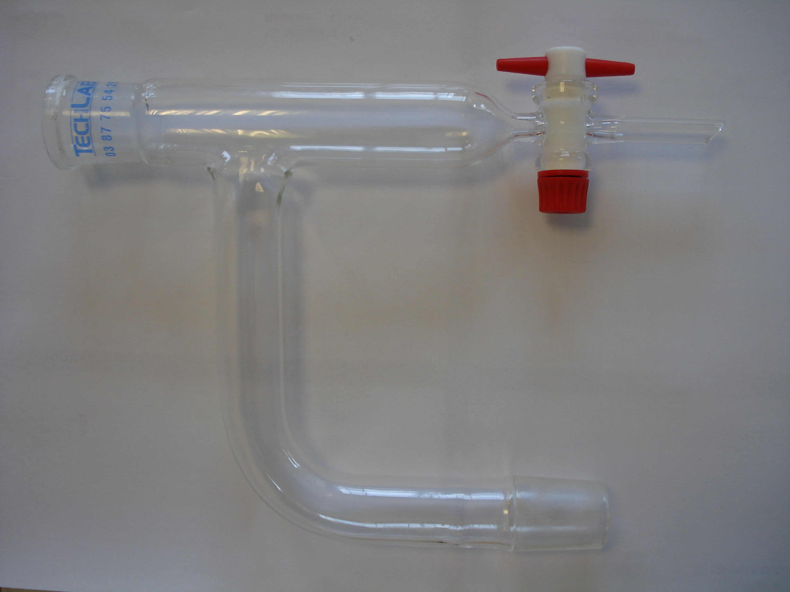 Dean-Stark